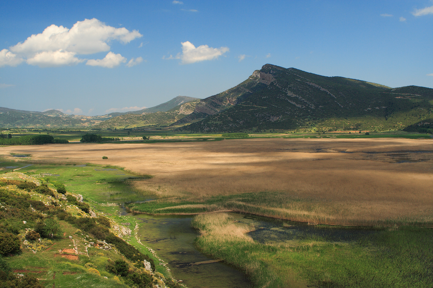 Stymfalia in the Peloponnese. Pond and view to the east. Left: Archeological site with new excavation of the city wall with city gate and foundations of houses.